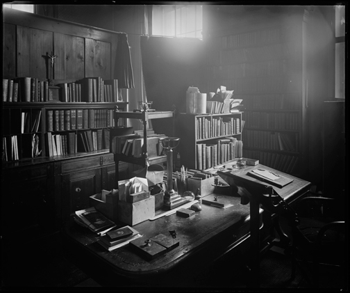 A 10×12 glass plate documenting Cardinal Newman’s room.